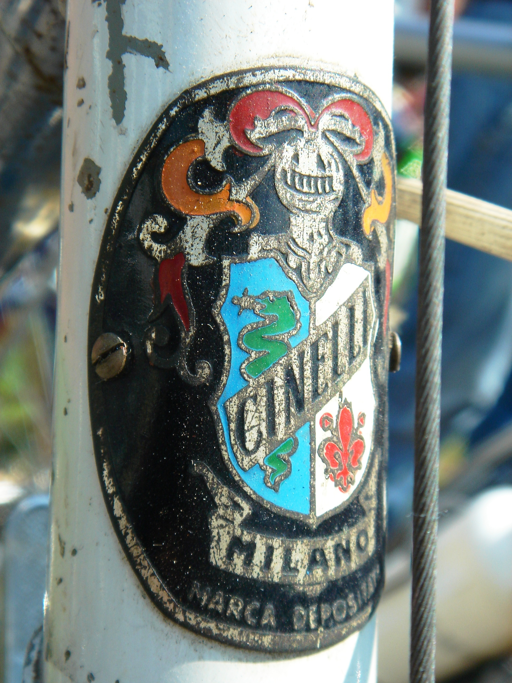 Cinelli Head Badge